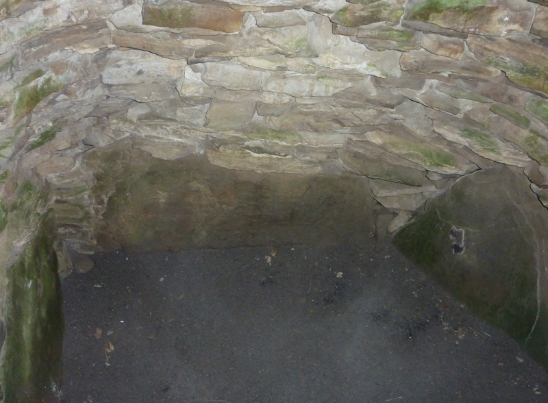 Grey Cairns of Camster, Caithness, Scotland - Camster Long Cairn, interior southern chamber